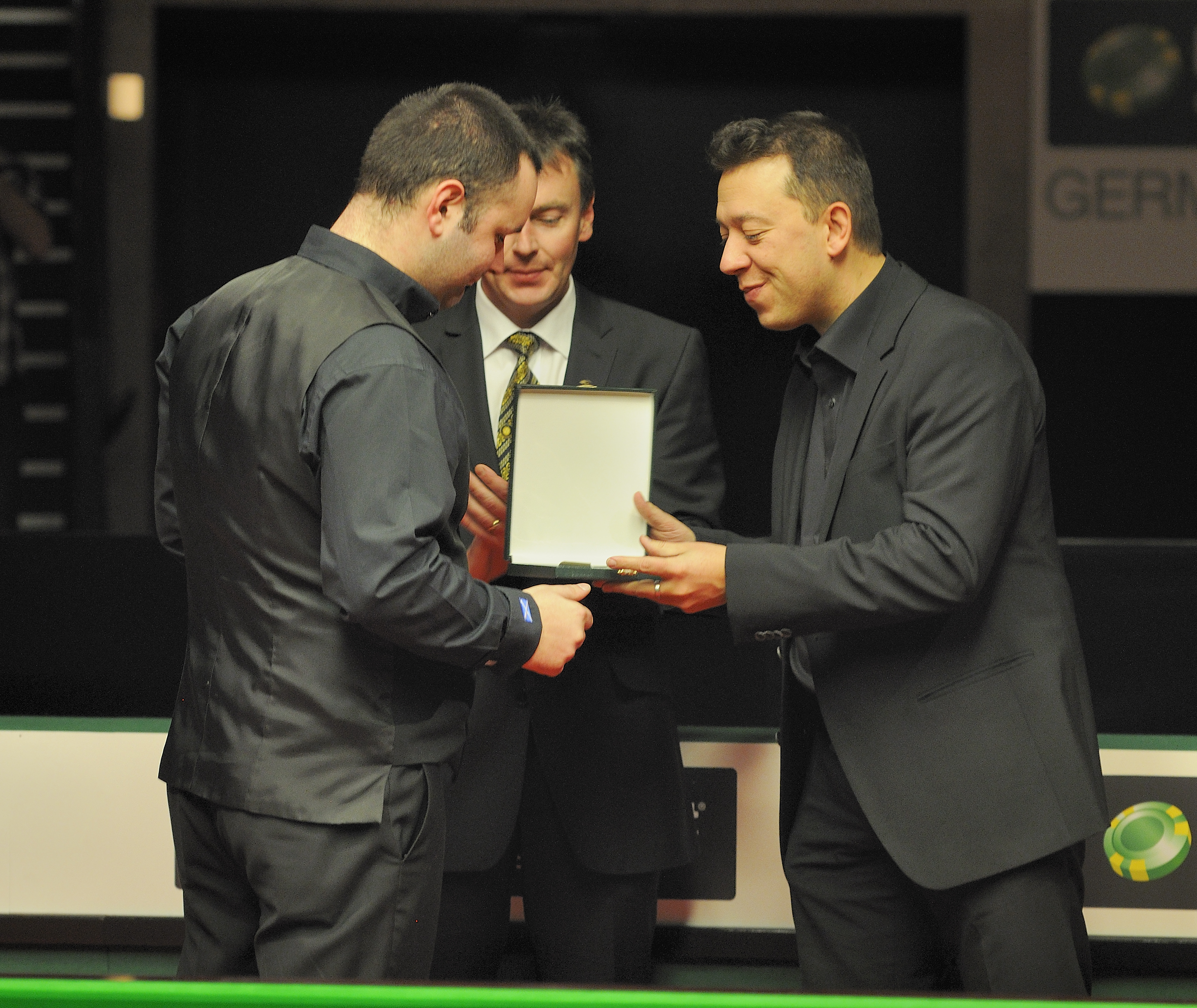 Picture taken in Berlin during the Snooker German Masters in 2011. Stephen Maguire.